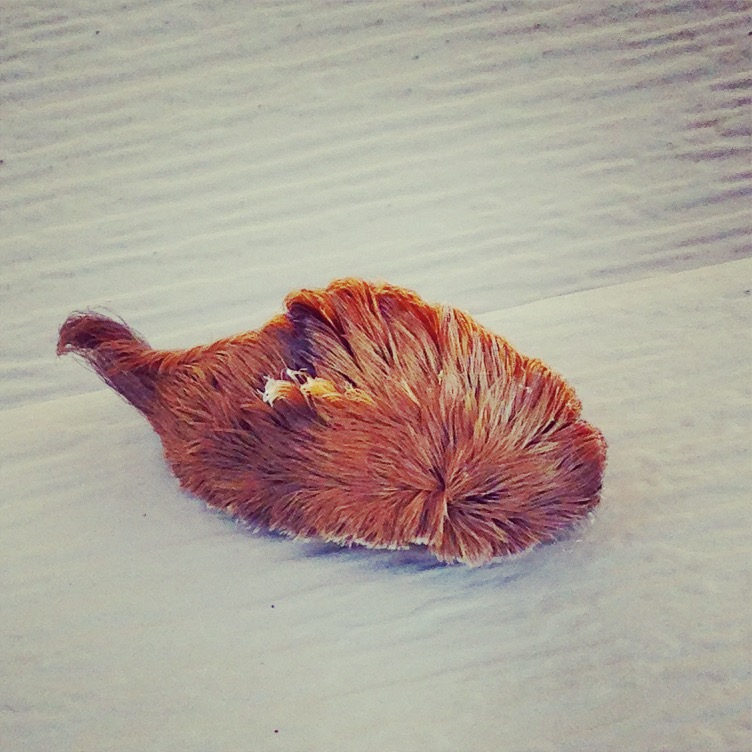 A megalopyge opercularis caterpillar on Kent Island, Maryland, in September 2014. This is a very toxic caterpillar that you should never touch.